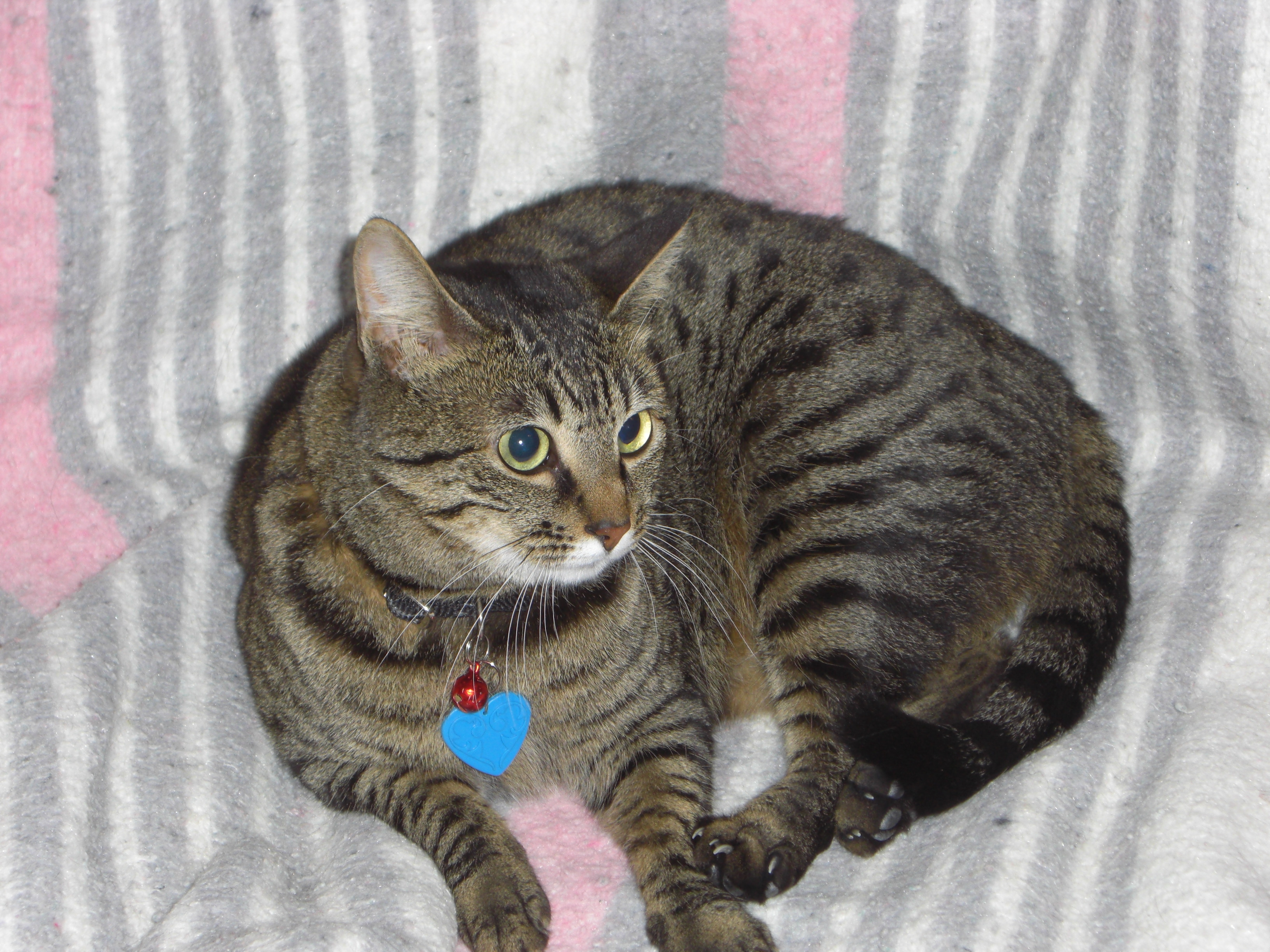 Gata de raza ocicat